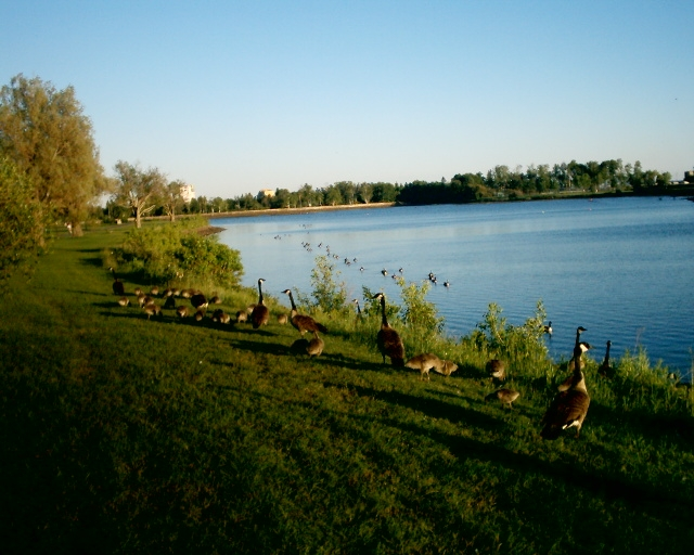 I, (Derek Silver), took this photograph on 21 June 2005. It is of Boulevard Lake, in Thunder Bay, Ontario. I hereby release it into public domain for the masses to enjoy. :)